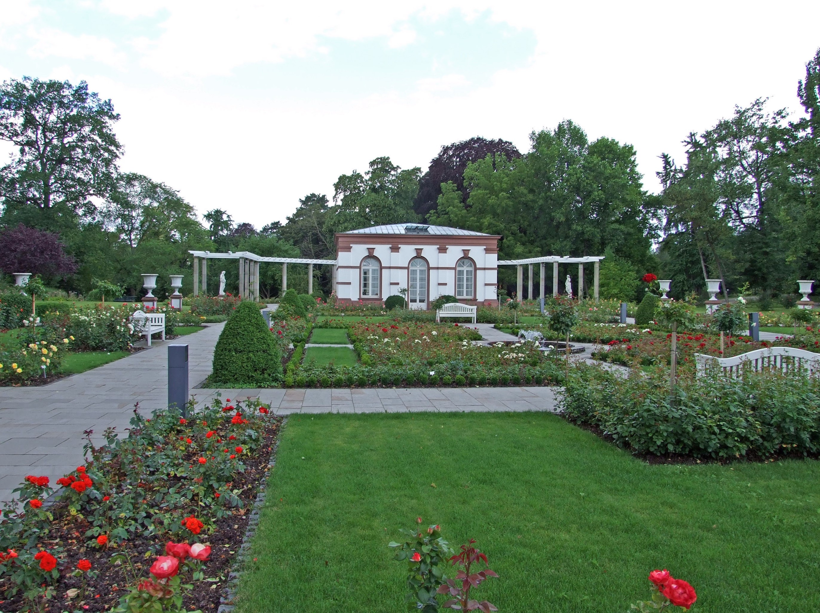 "Haus Rosenbrunn" at "Palmengarten" in Frankfurt am Main